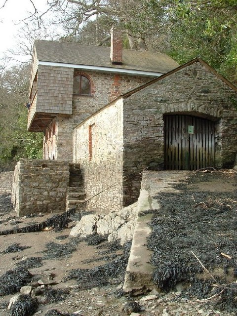 Boathouse The boathouse at Greenway